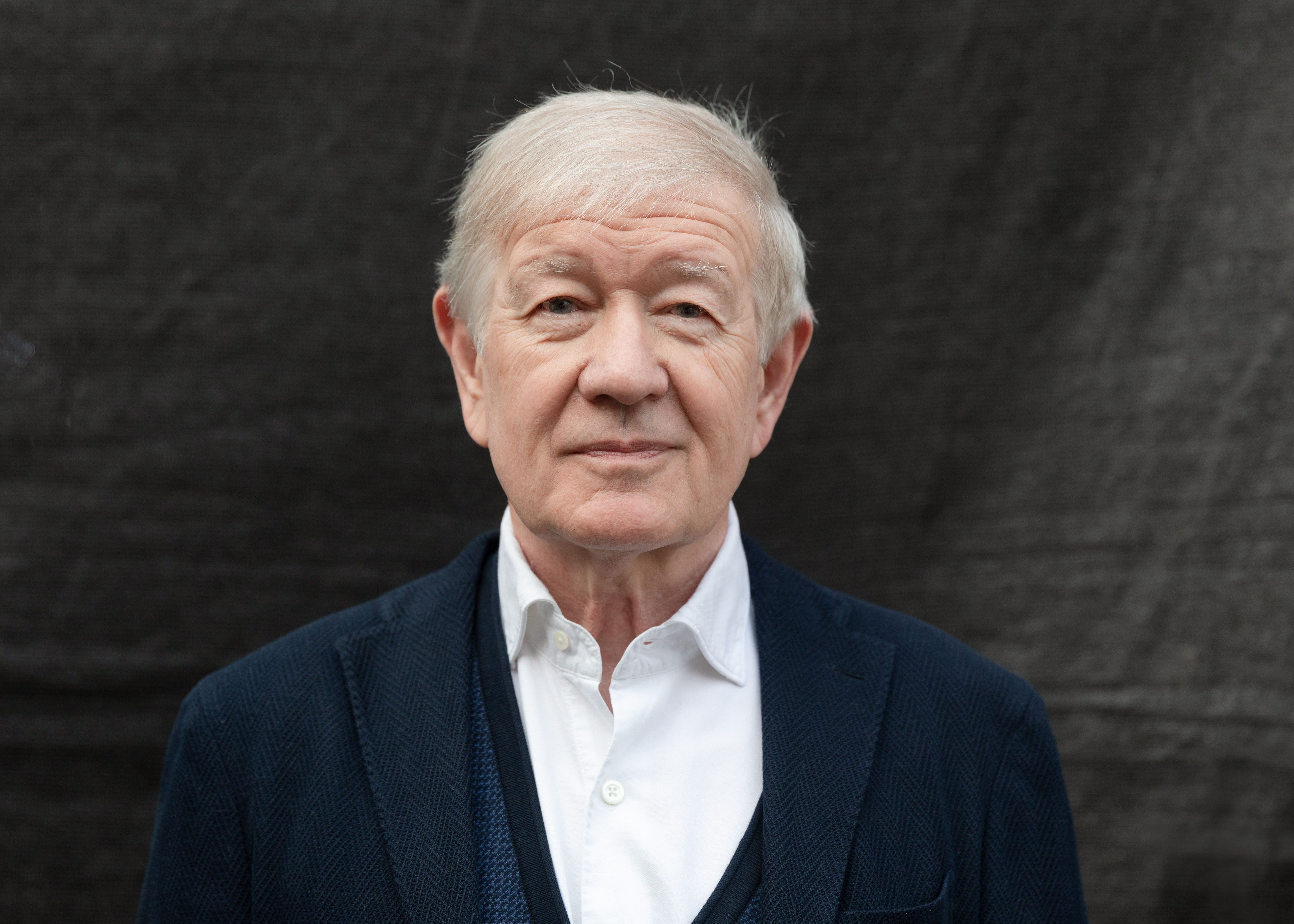 Armin Thurnher at a protest against the governments plans for the ORF (Karlsplatz, Vienna, Austria).